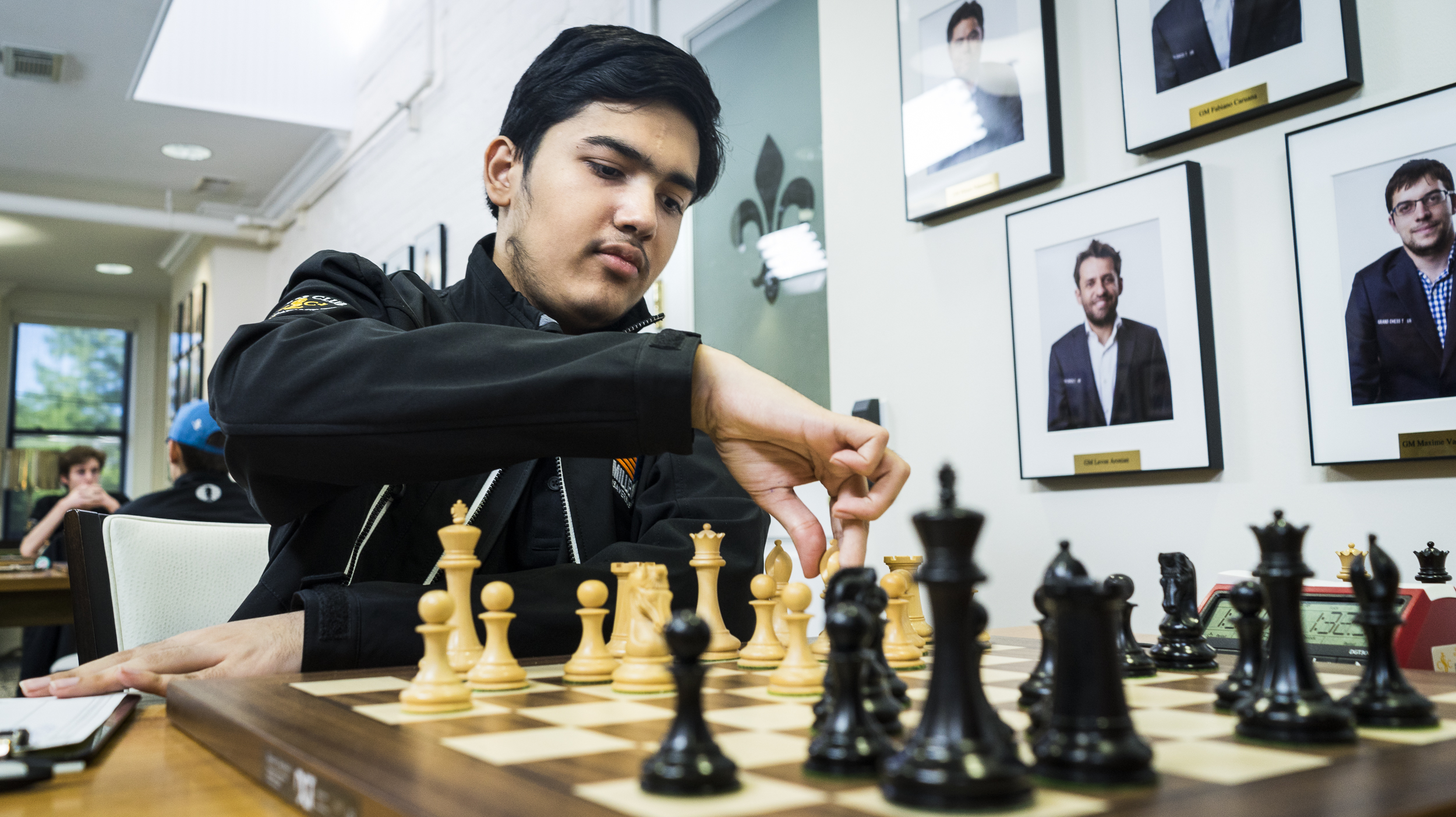 GM Aryan Chopra at the World Chess Hall of Fame in St. Louis for the 2017 Match of the Millennials